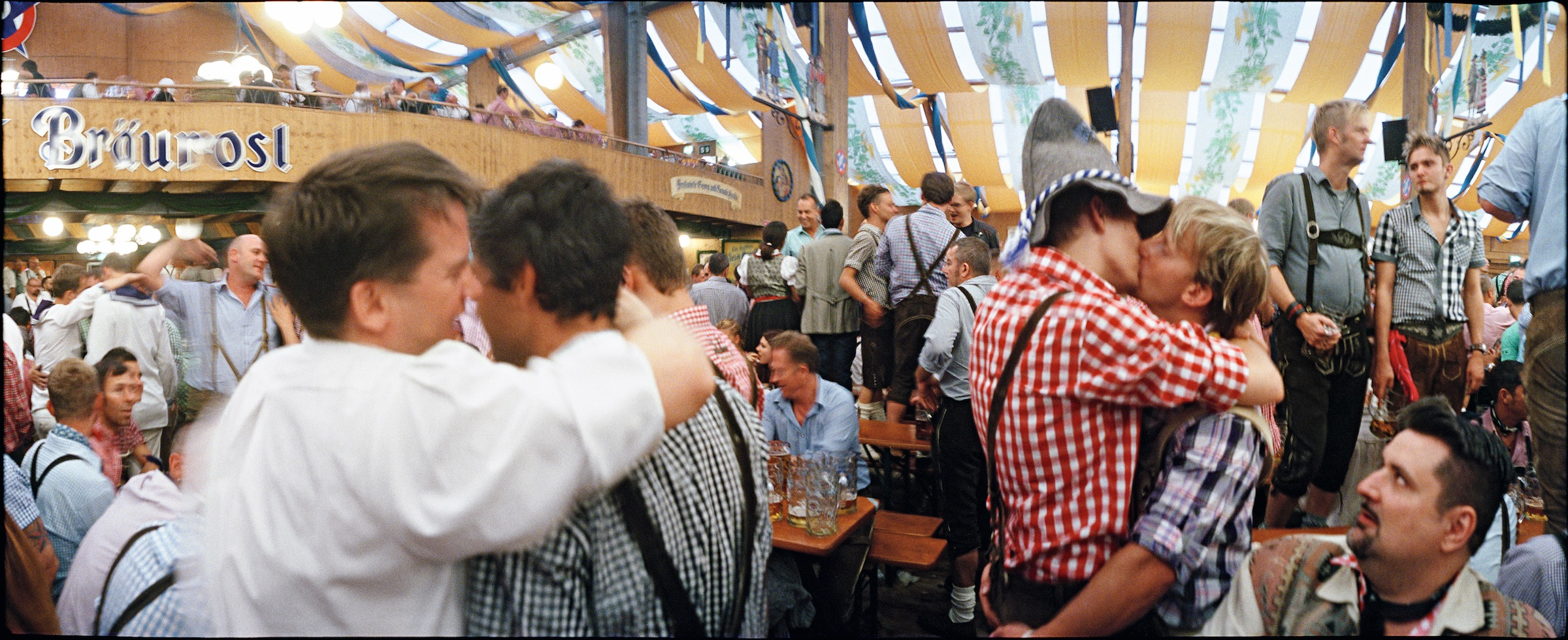 Oktoberfest - Bierfest